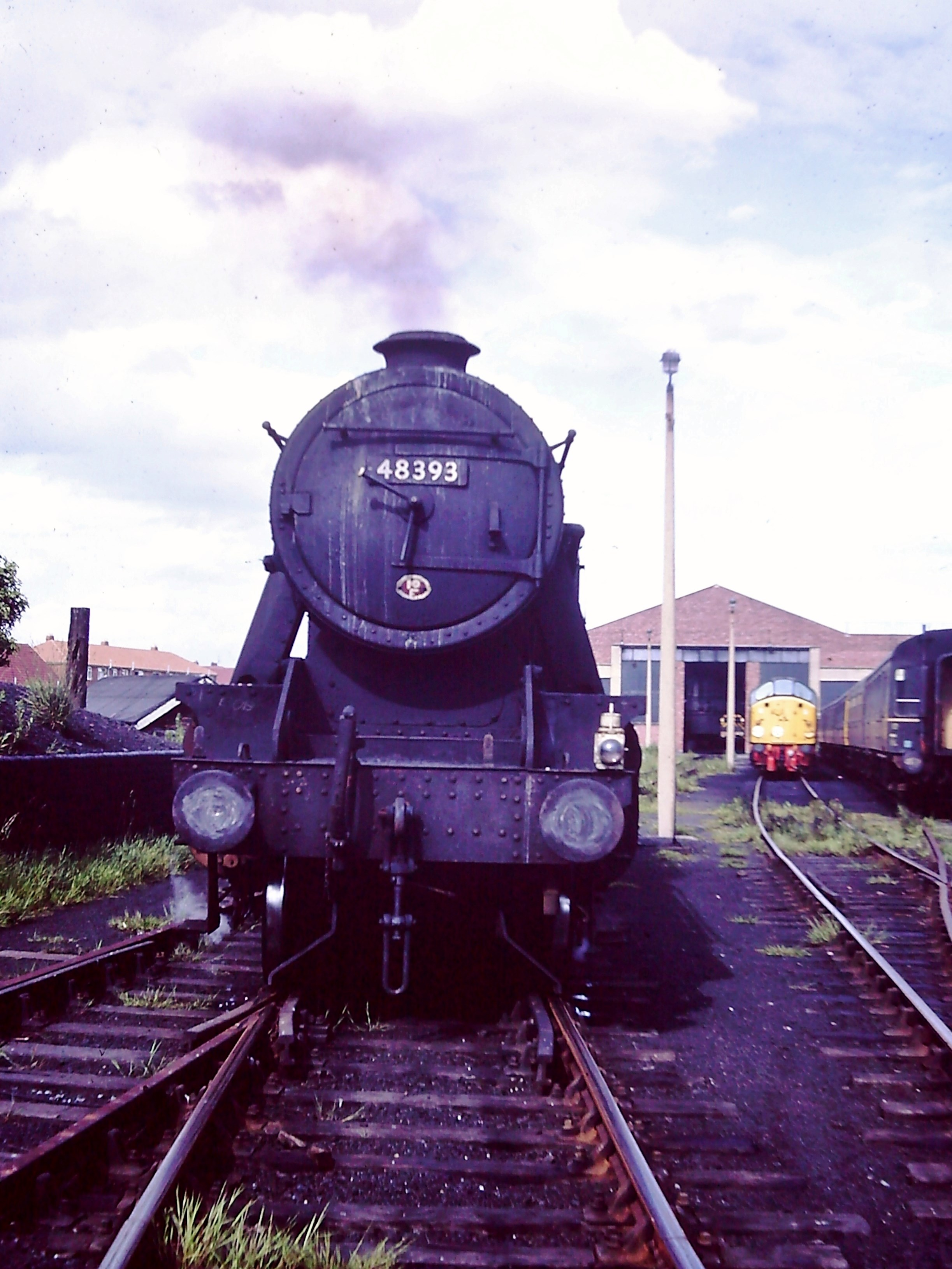 48343 Neville Hill 22.06.68 48343 had worked across the Pennines with an oil train for Neville Hill. Copied from my Kodachrome 25 slide taken with an Agfa Silette L.